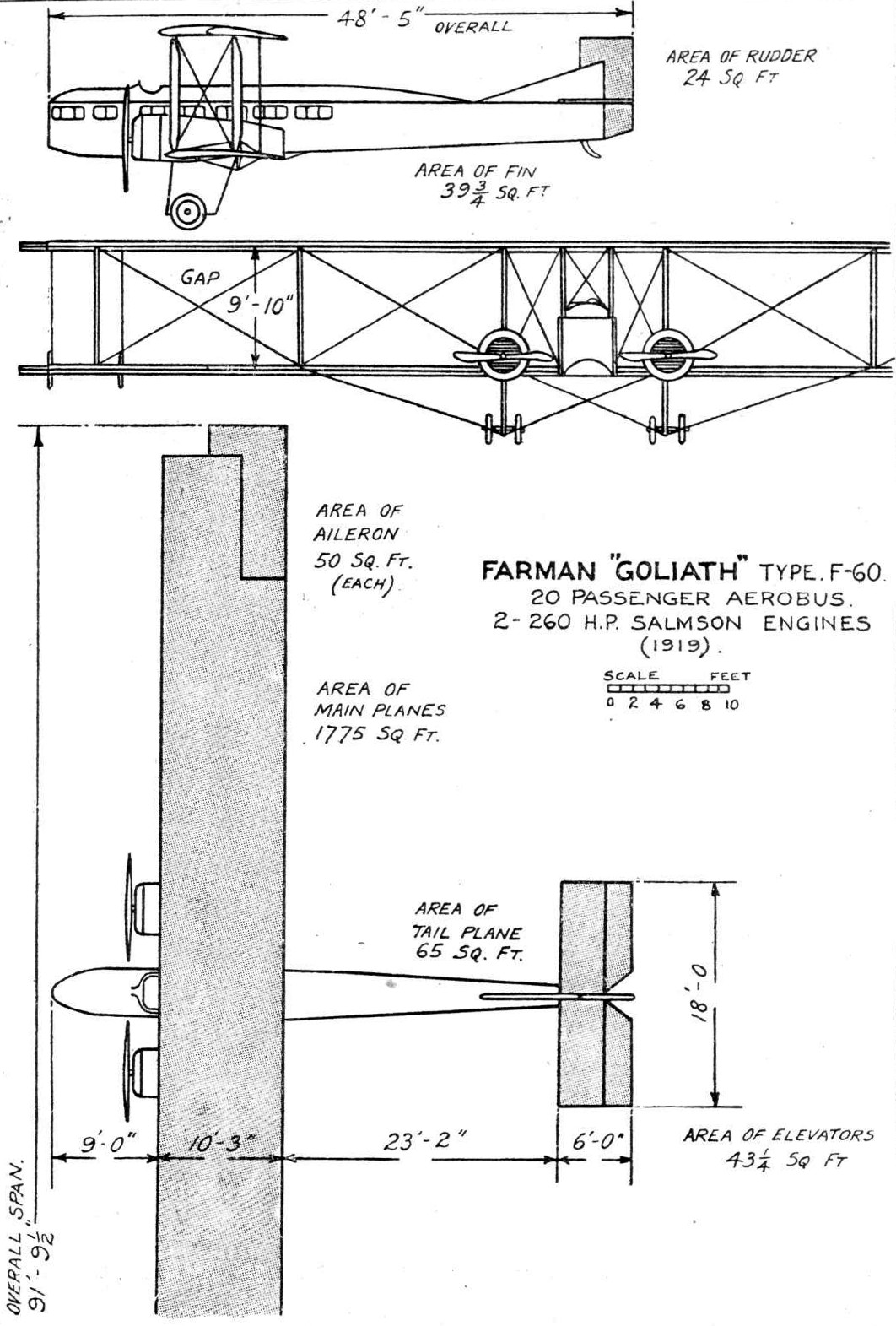 Three-view drawing of Farman F.60 Goliath.